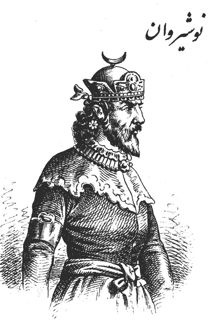 This is a artwork of Khosrau I, also known as Anushirvan, he was one of the greatest rulers of the Sassanid Empire.